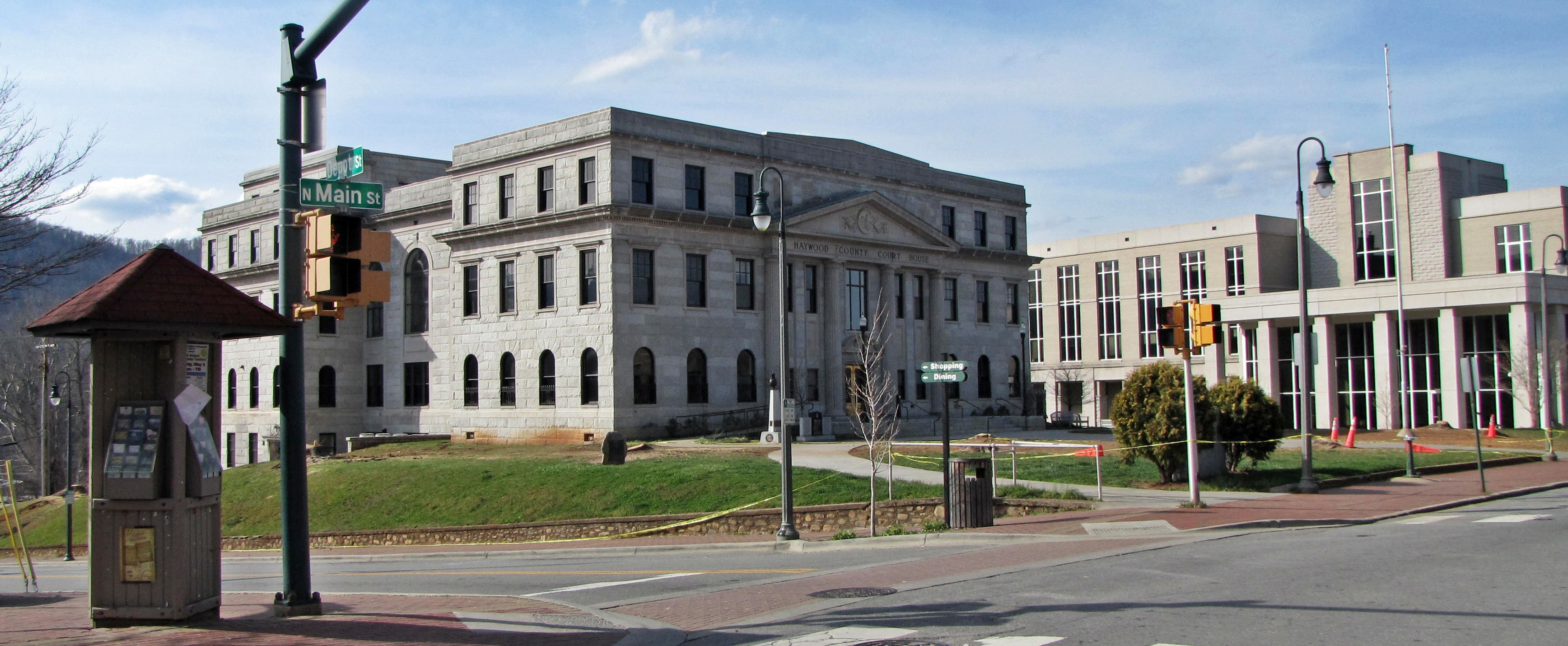 Haywood County Courthouse, Waynesville, North Carolina